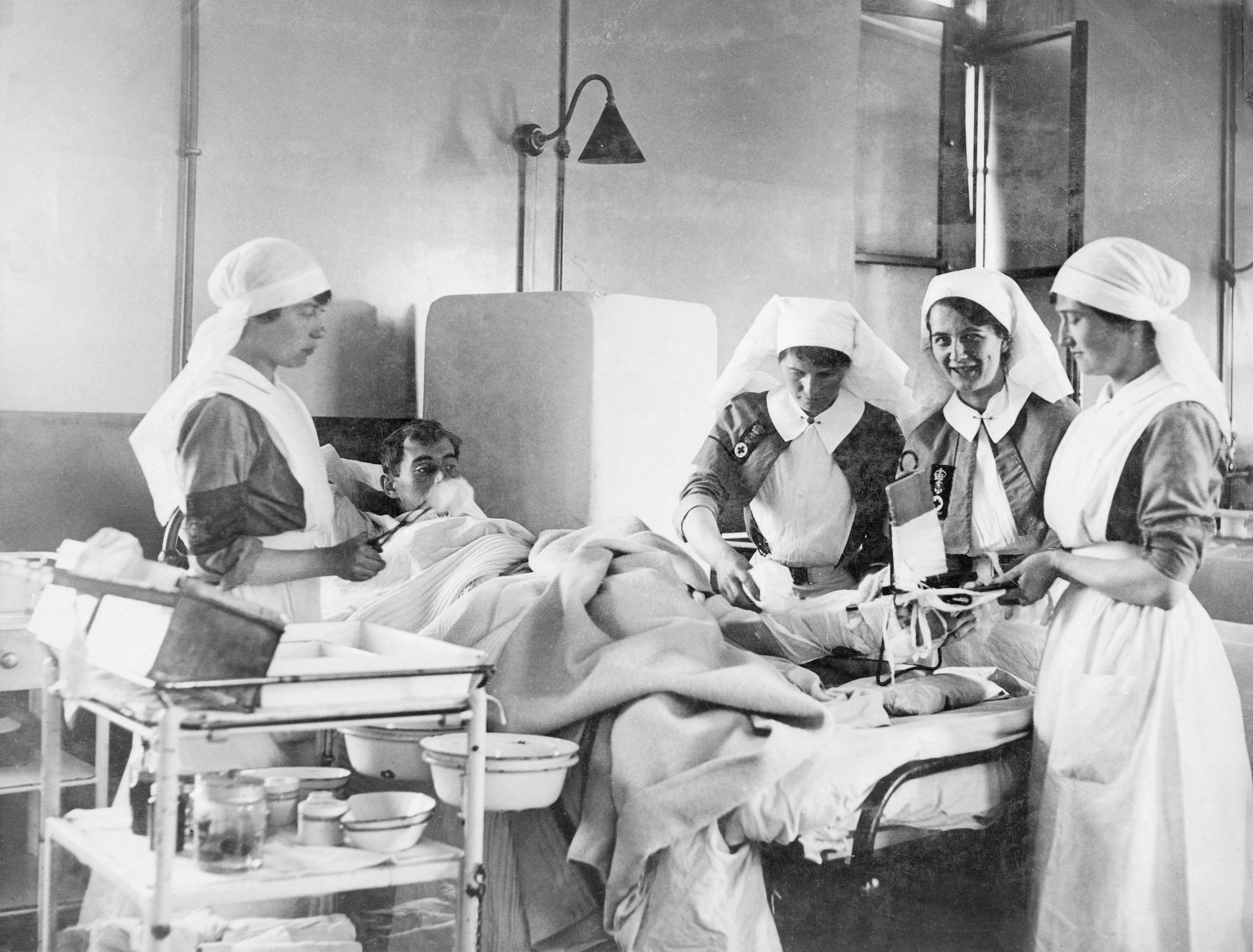 World War I. Naval nurses and Red Cross train at Chatham. Wounded from Zeebrugge having their wounds dressed. Wellcome Images Keywords: Military History; World War One; Military Medicine; Nursing